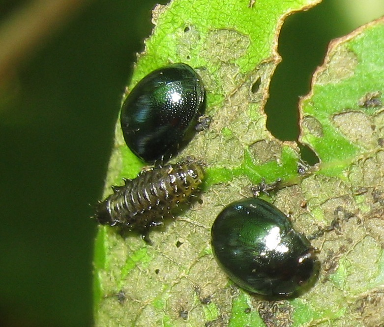 Imported Willow Leaf Beetle, Plagiodera versicolora, larva and adults on cottonwood. Briar Bush Nature Center, Montgomery County, Pennsylvania, USA. 40.1228° N, 75.1281° W.